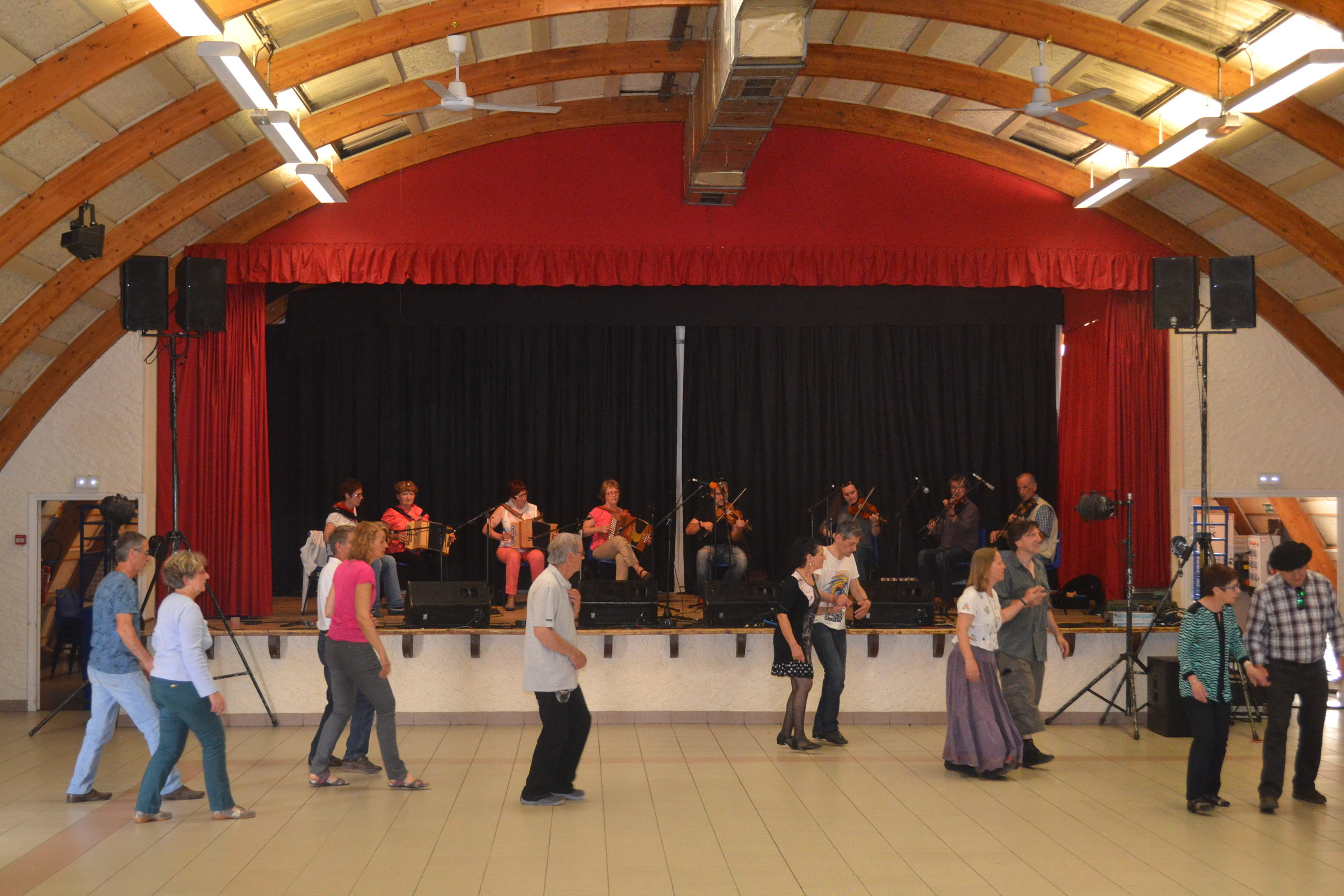 Dancing people during Campestral 2016 in Le Passage d'Agen.